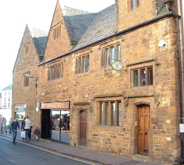 1 Parsons Street, Banbury, Oxfordshire: a 17th-century ironstone house, now used as offices